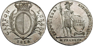 Switzerland Luzern. AR 4 Franken (29.29 g). Dated 1814. Civic coat of arms Soldier with pike and shield. Davenport 364; KM 109.